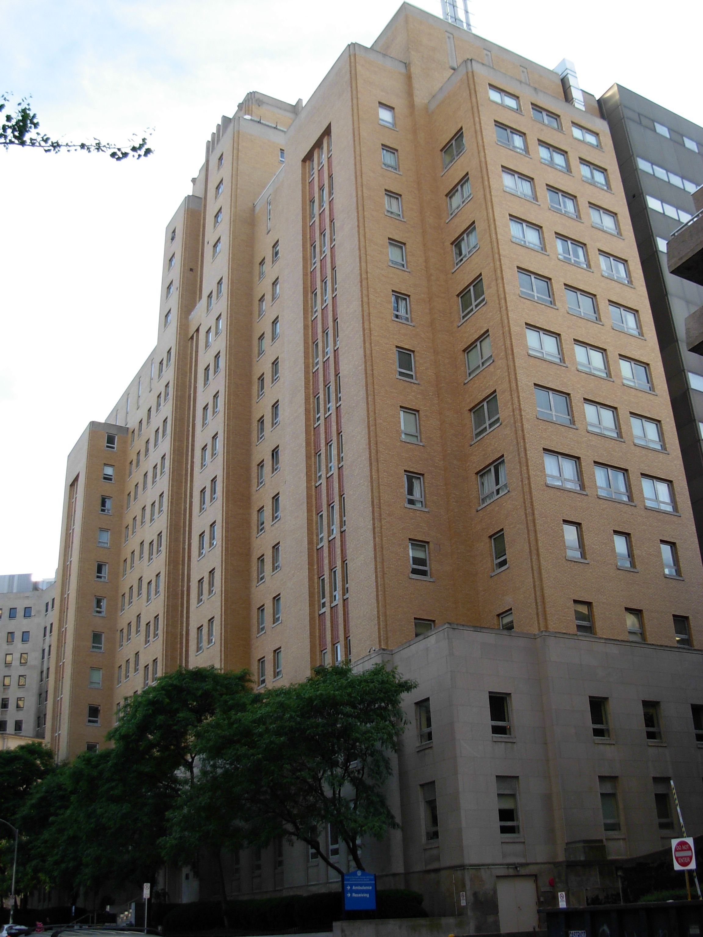 Western Psychiatric Institute - Thomas Detre Hall, University of Pittsburgh